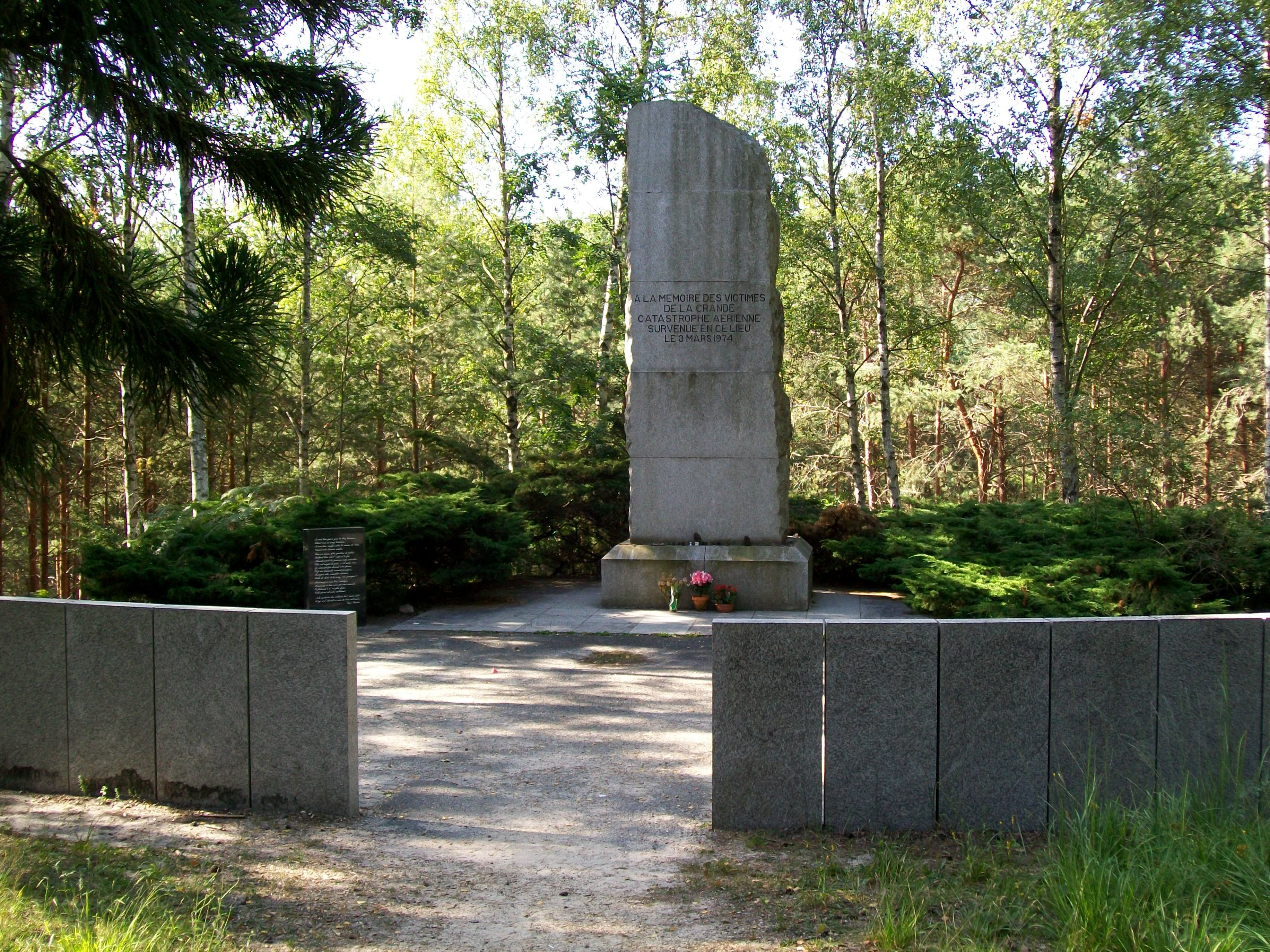 Monument to the 346 victims of the 3 March 1974 crash of Turkish Airlines Flight 981 in Parcel 144 in the centre of the forest